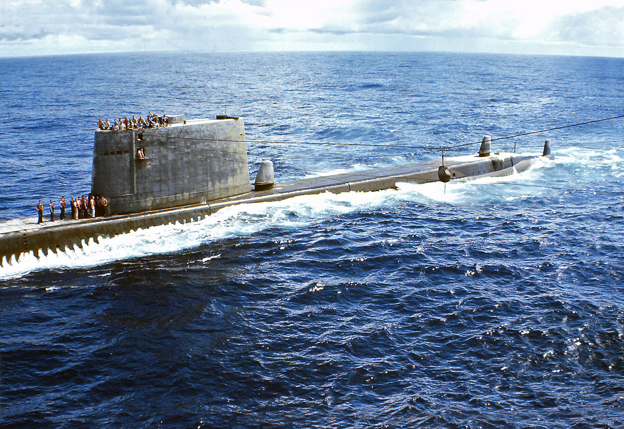 The U.S. Navy submarine USS Salmon (SS-573) alongside the guided missile cruiser USS Galveston (CLG-3) during a mail call in the Pacific Ocean, in November 1965.